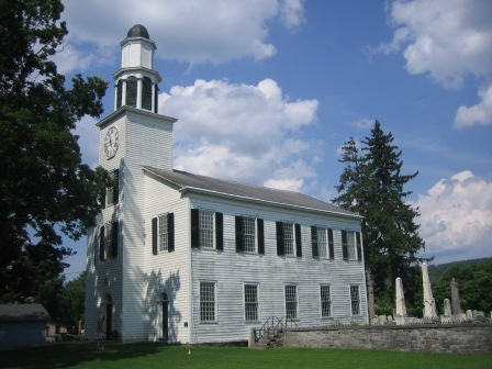 Delphi Baptist Church, in Delphi Falls, New York